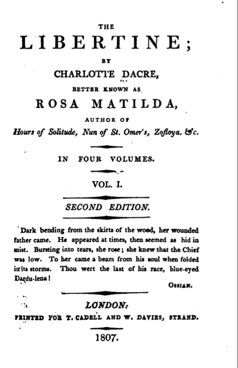 The Libertine - Second edition